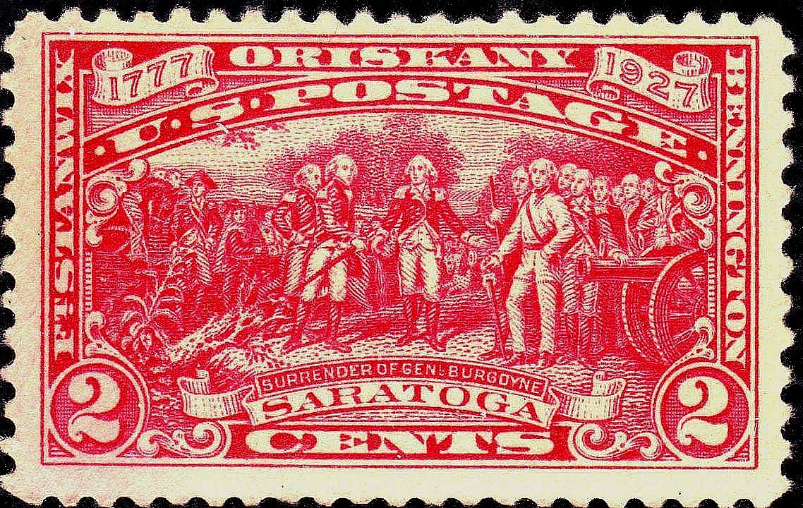 Saratoga_1777_Oriskany_1927_Issue-2c.jpg